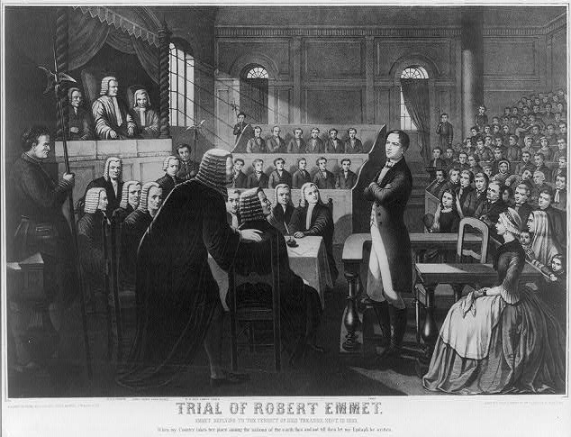 Irish nationalist Robert Emmet (1778-1803). "Trial of Robert Emmet. Emmet replying to the verdict of high treason, Sept. 19, 1803."